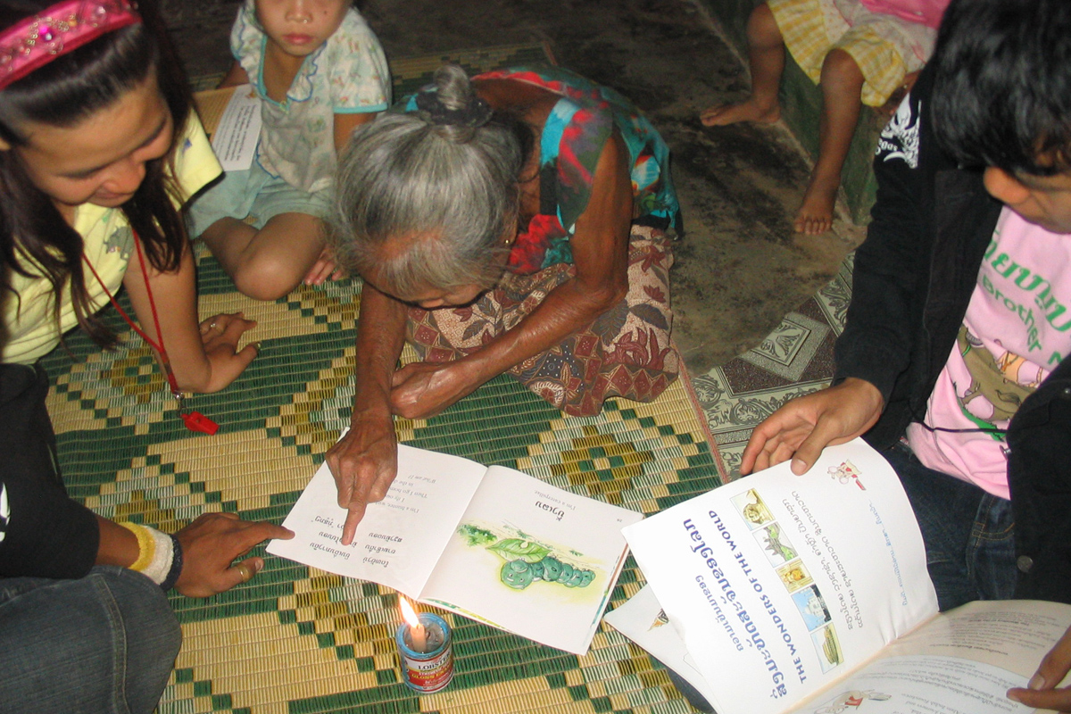 An elderly woman in a rural Lao village practices her reading skills. Written Lao is phonetic, and literacy rates are estimated at about 70%, but many adults read very slowly, if at all, because they've had little opportunity to see books. This woman was practicing at a rural village reading room set up by Big Brother Mouse, a literacy project in Laos.